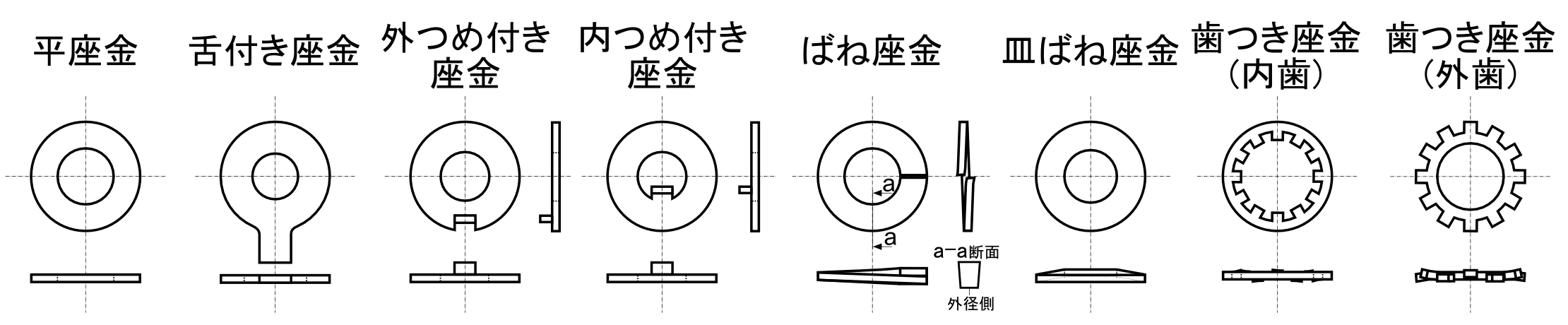 Screw (bolt) 22H-J